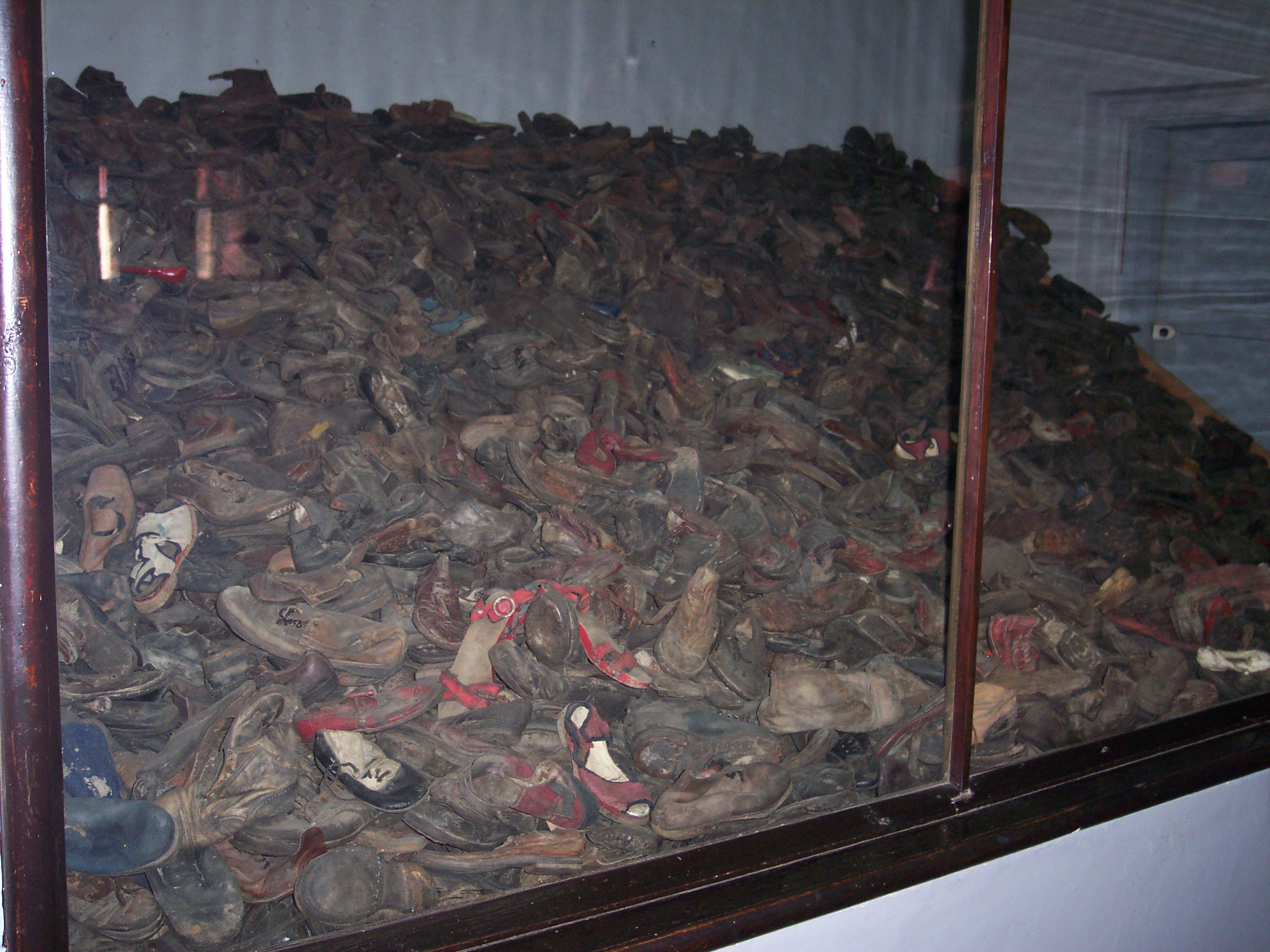 Exhibition Material Proofs of Crimes at Auschwitz I